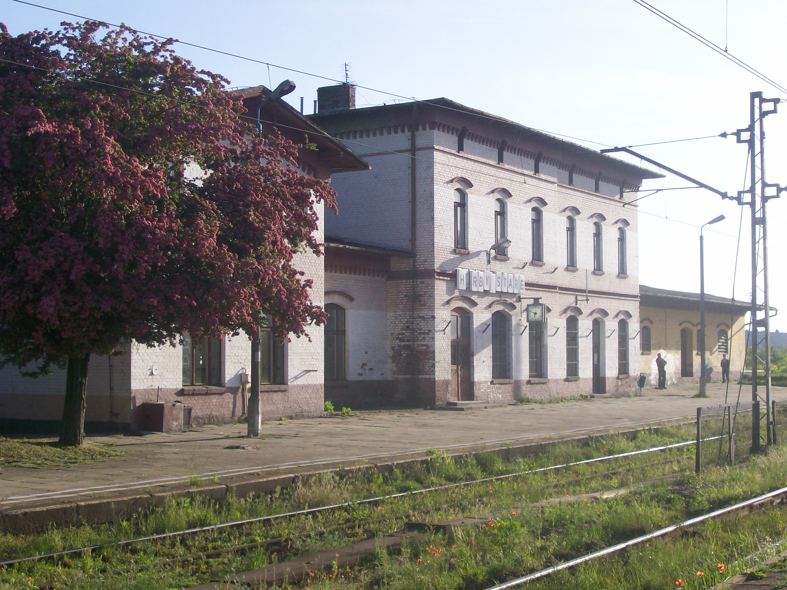 Railway station "Herby Stare"